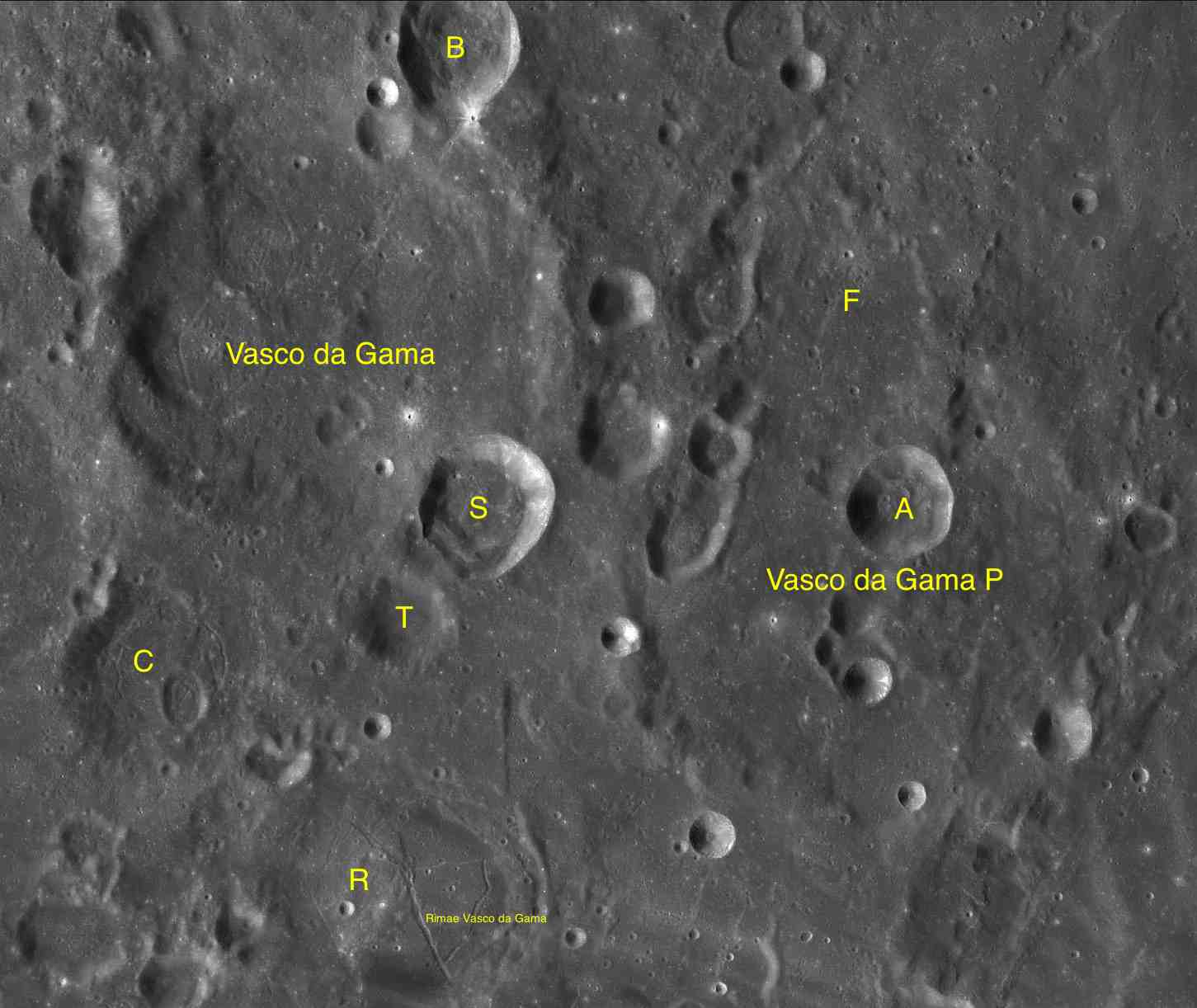 Part of LAC-55 chart used for the presentation